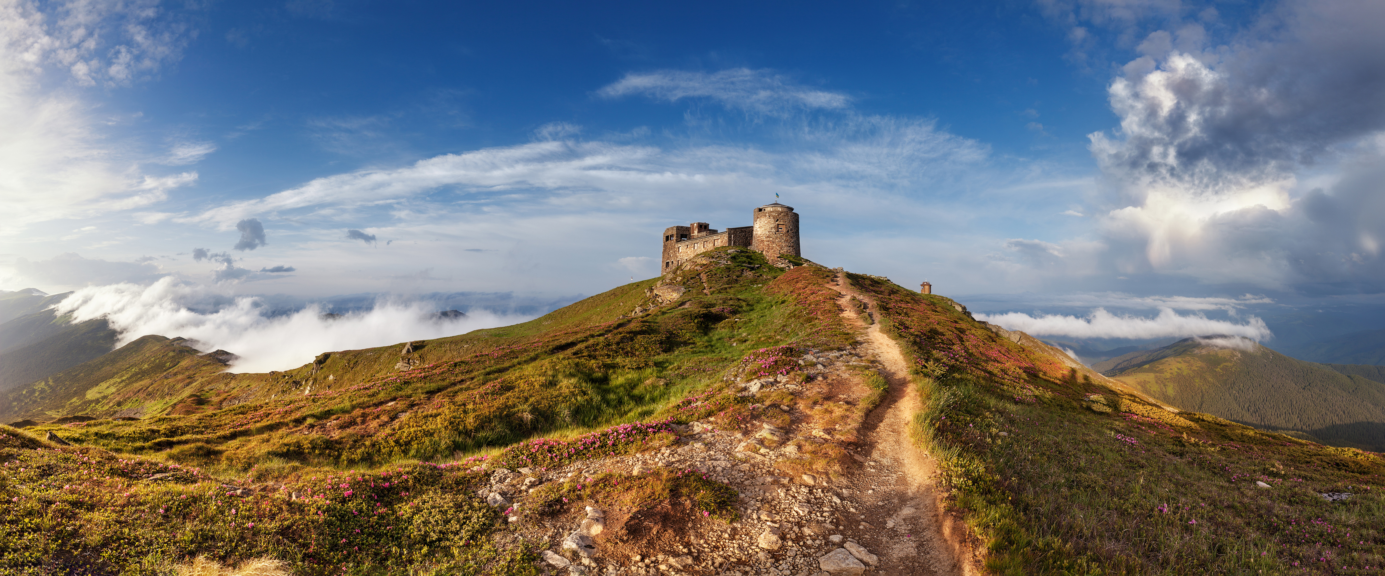 The old Polish Pip Ivan Observatory, also known as "The White Elephant", built in 1938 at 2028 m in Carpathian National Nature Park. The name "White Elephant" comes from the shape it resembles in winter when it is covered in snow.